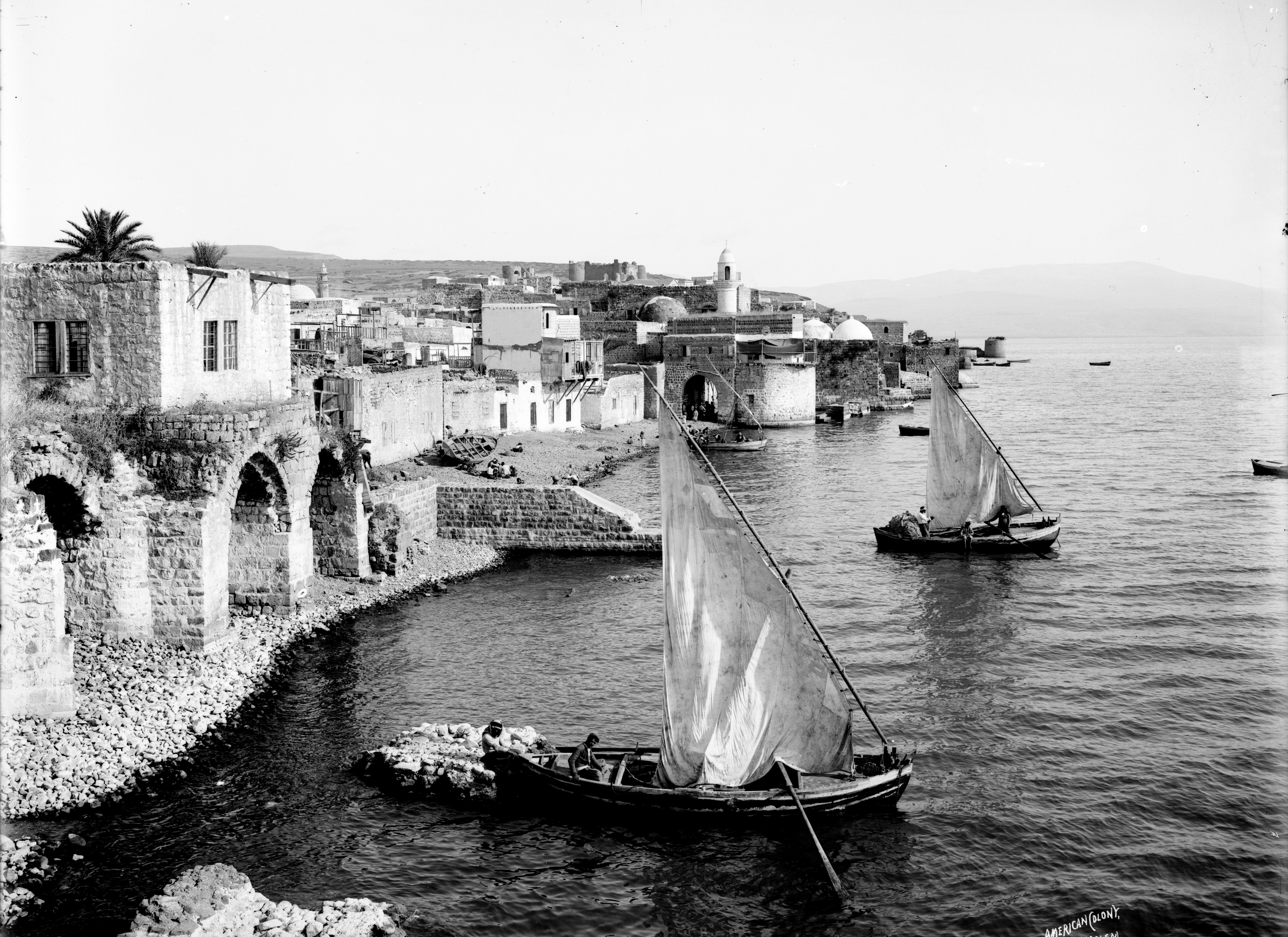 Northern views. 828. Tiberias from the lake